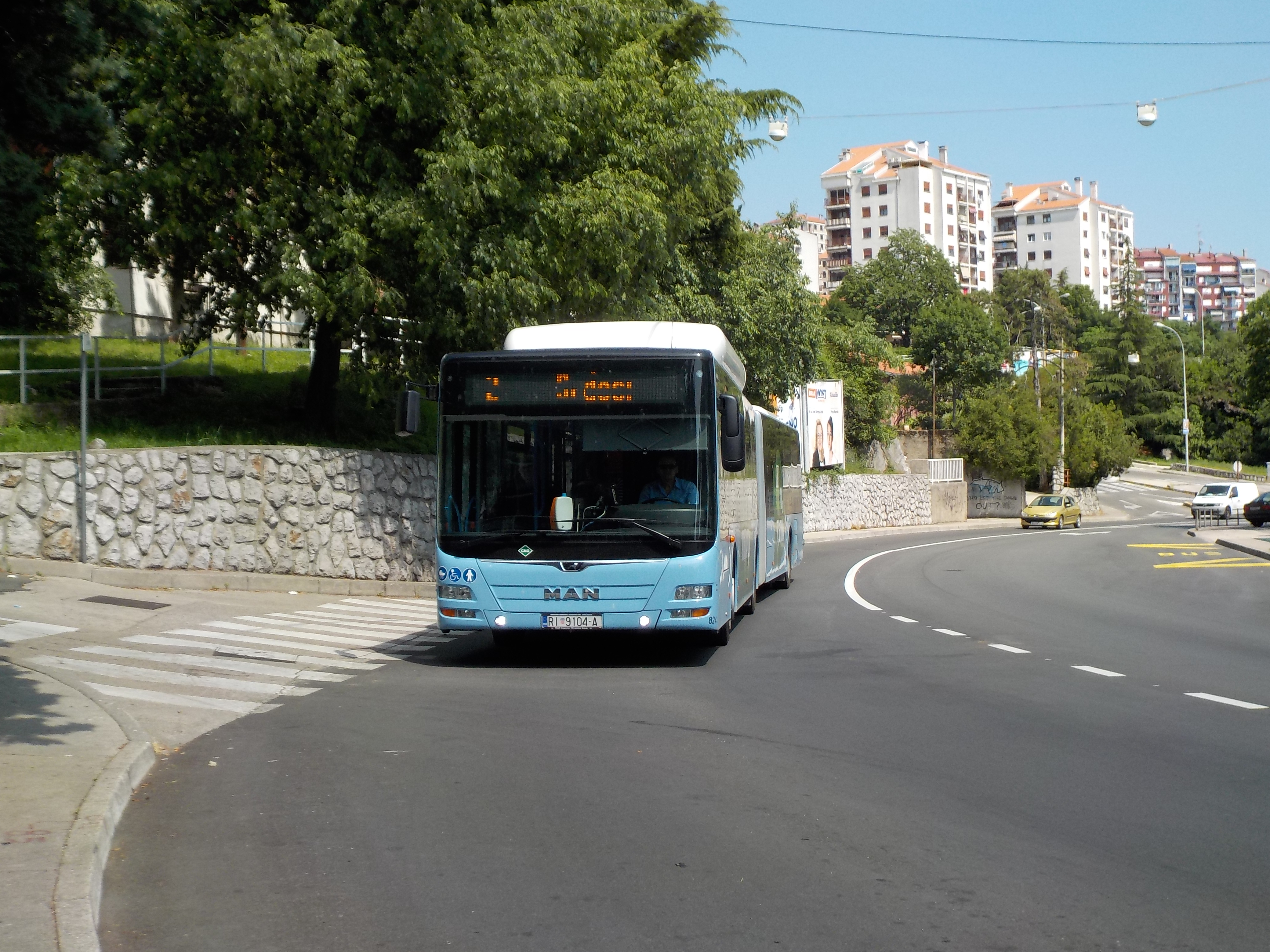 MAN Lion's City G bus in Rijeka. It drives on compressed natural gas.